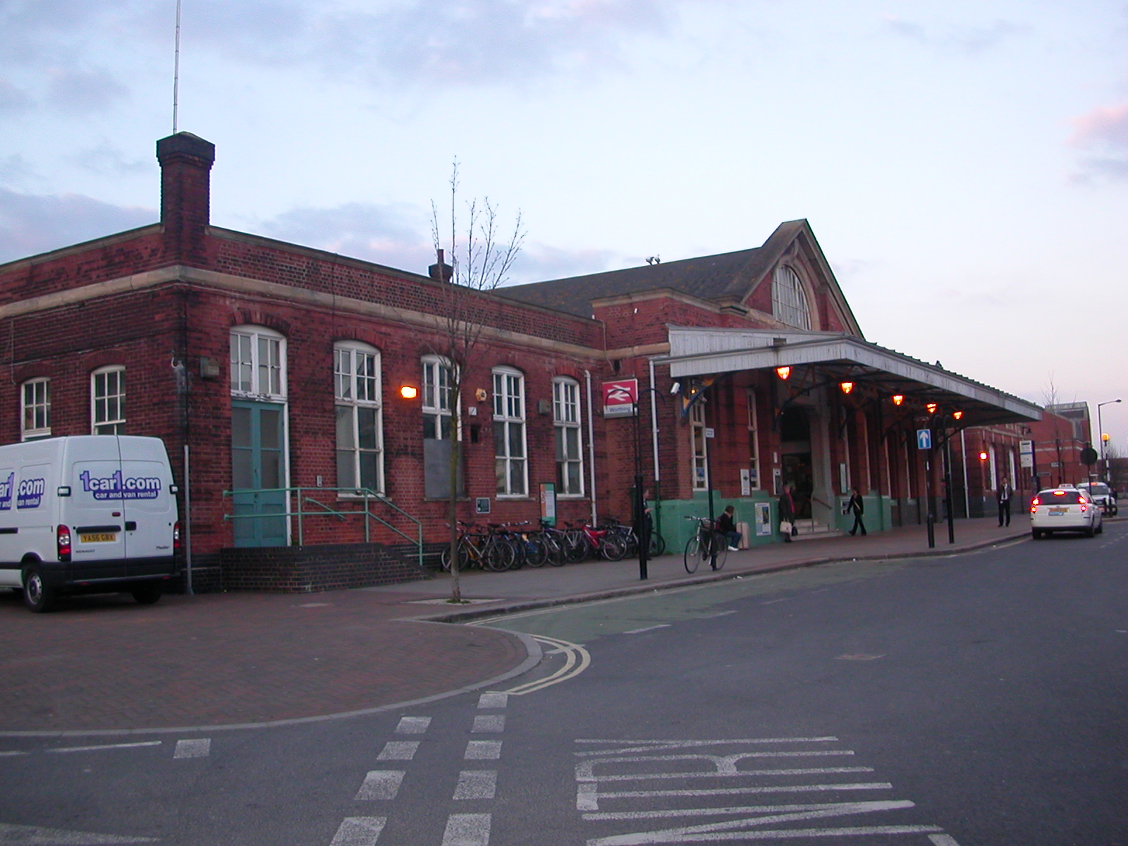 Forecourt and main station building at Worthing. Photographed on 15th March 2007.